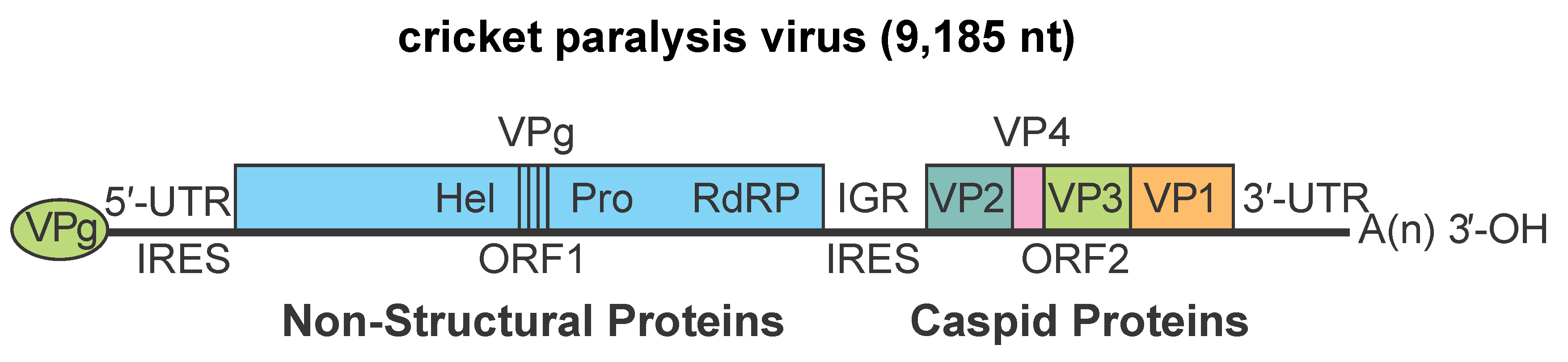 Dicistroviridae. Genome structure of cricket paralysis virus. The RNA genome contains two non-overlapping ORFs separated by an intergenic region (IGR). The 5′-proximal ORF encodes the nonstructural proteins: RNA helicase (Hel), cysteine protease (Pro), and RNA-dependent RNA polymerase (RdRP). The structural proteins are encoded by the 3′-proximal ORF and are expressed as a polyprotein that is subsequently processed to yield three major structural proteins (VP1, VP2 and VP3). A fourth structural protein, VP4, is the N-terminal extension of VP3, which is cleaved from the precursor VP0. This small peptide is considered to be involved in membrane alterations required for genome transfer to the cytoplasm of host cells during infection. Indeed, recent independent studies have shown that recombinant VP4 from both cricket paralysis virus and triatoma virus forms pores in model membranes (Sanchez-Eugenia et al., 2015, Kerr et al., 2015). Distinct internal ribosome entry sites (IRES) are located in the 5′-UTR and IGR. The genome has a small peptide covalently linked to the 5′-end (genome-linked virus protein, VPg) and a 3′-polyadenylated terminus.